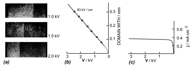 (a) High-Field Domain [dark region] (b) Domain width vs. bias (c) current voltage characteristic from Karl W. Böer and P. Voss, Phys. Rev. 171, 899 (1968)